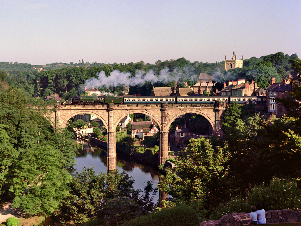 British Railways Riddles 'Standard' 9F 2-10-0 locomotive number 92220 EVENING STAR of York MPD crosses Knaresborough Viaduct with the 08:23 York to Scarborough Scarborough Spa Express (1L97). Sunday 14th August 1983